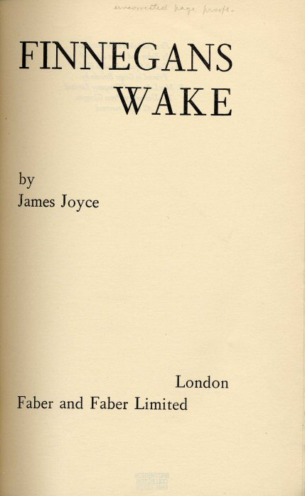 The cover of the Faber and Faber edition of Finnegans Wake by James Joyce